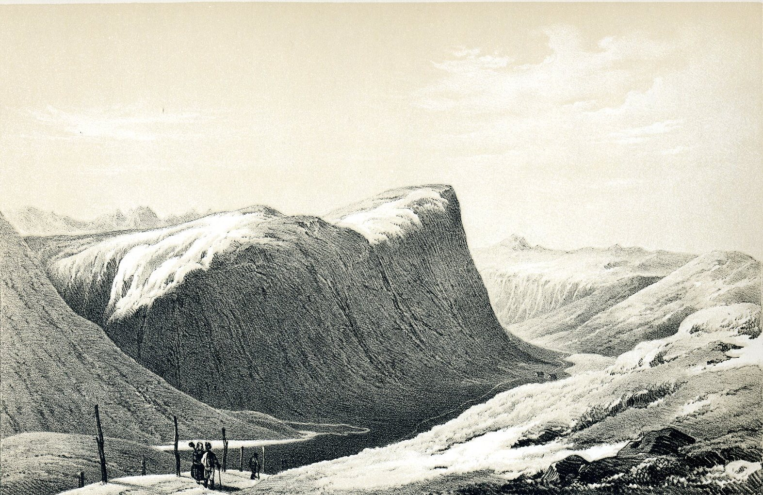 Nystuen, Filefjell, Vang municipality, Oppland county, Norway.